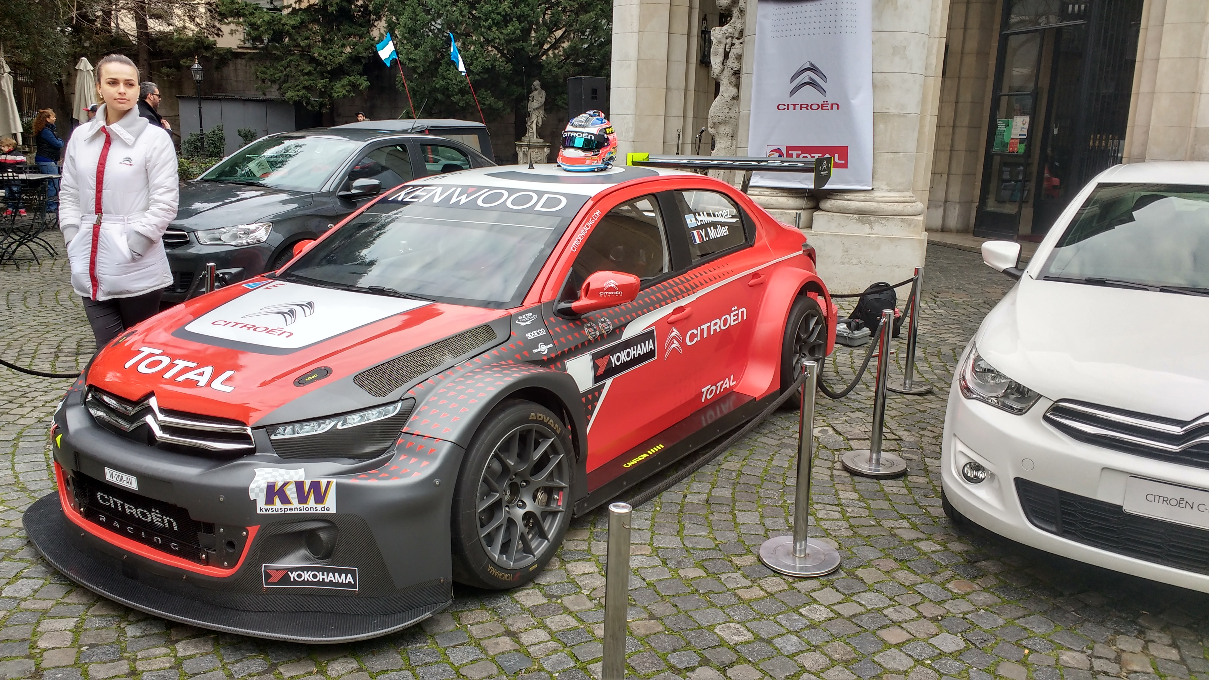 Citroën C-Elysée City Tour Buenos Aires